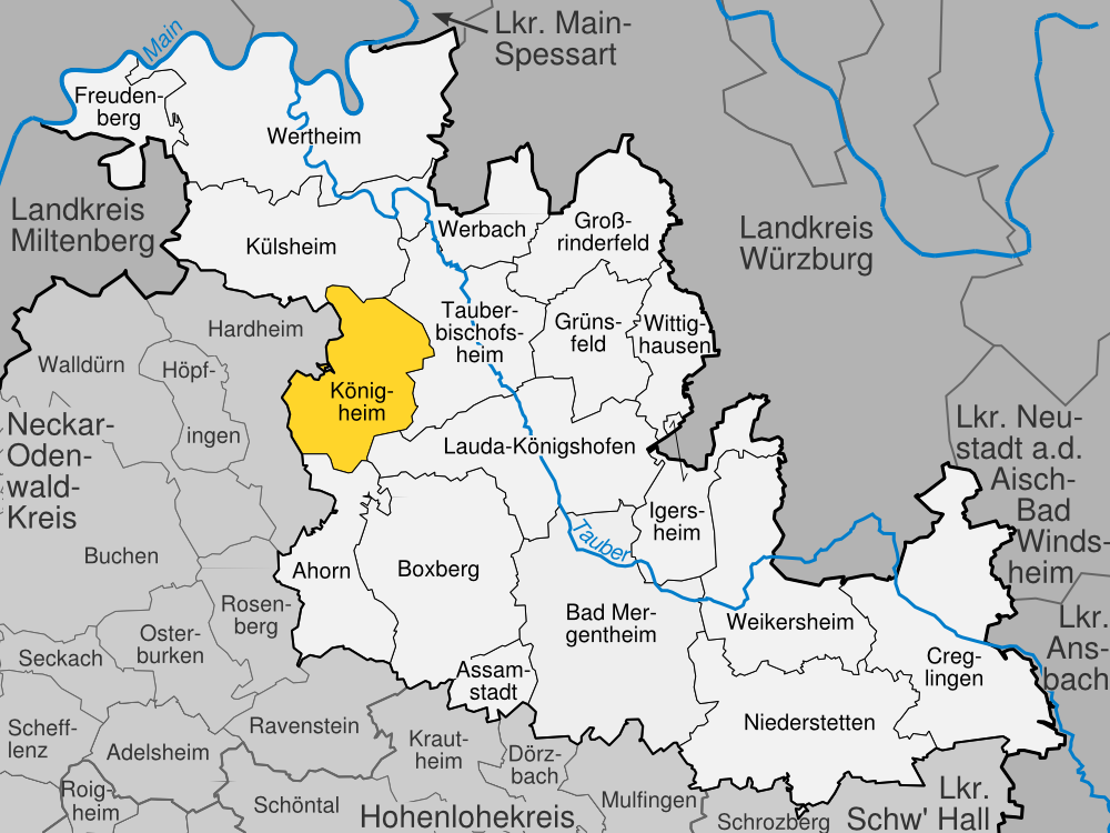 position of Königheim within the Main-Tauber-Kreis, Baden-Württemberg, Germany